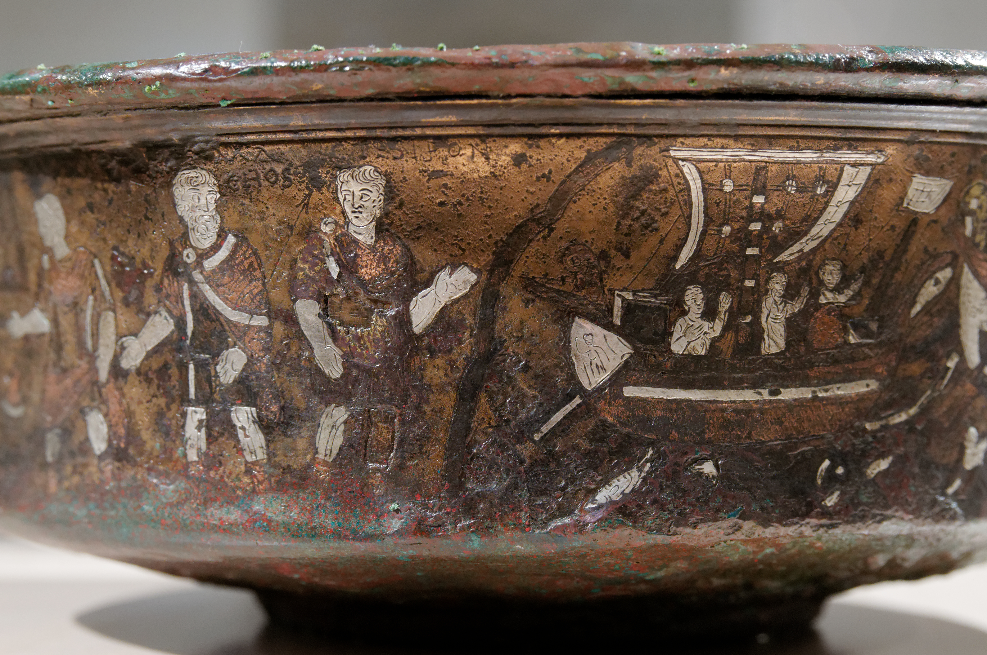 Foundation of Caesarea Maritima by Strato I, Phoenician king of Sidon.